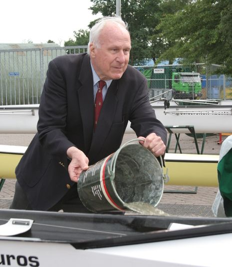 Rutger Röell (1929 - 2009), rowing coach